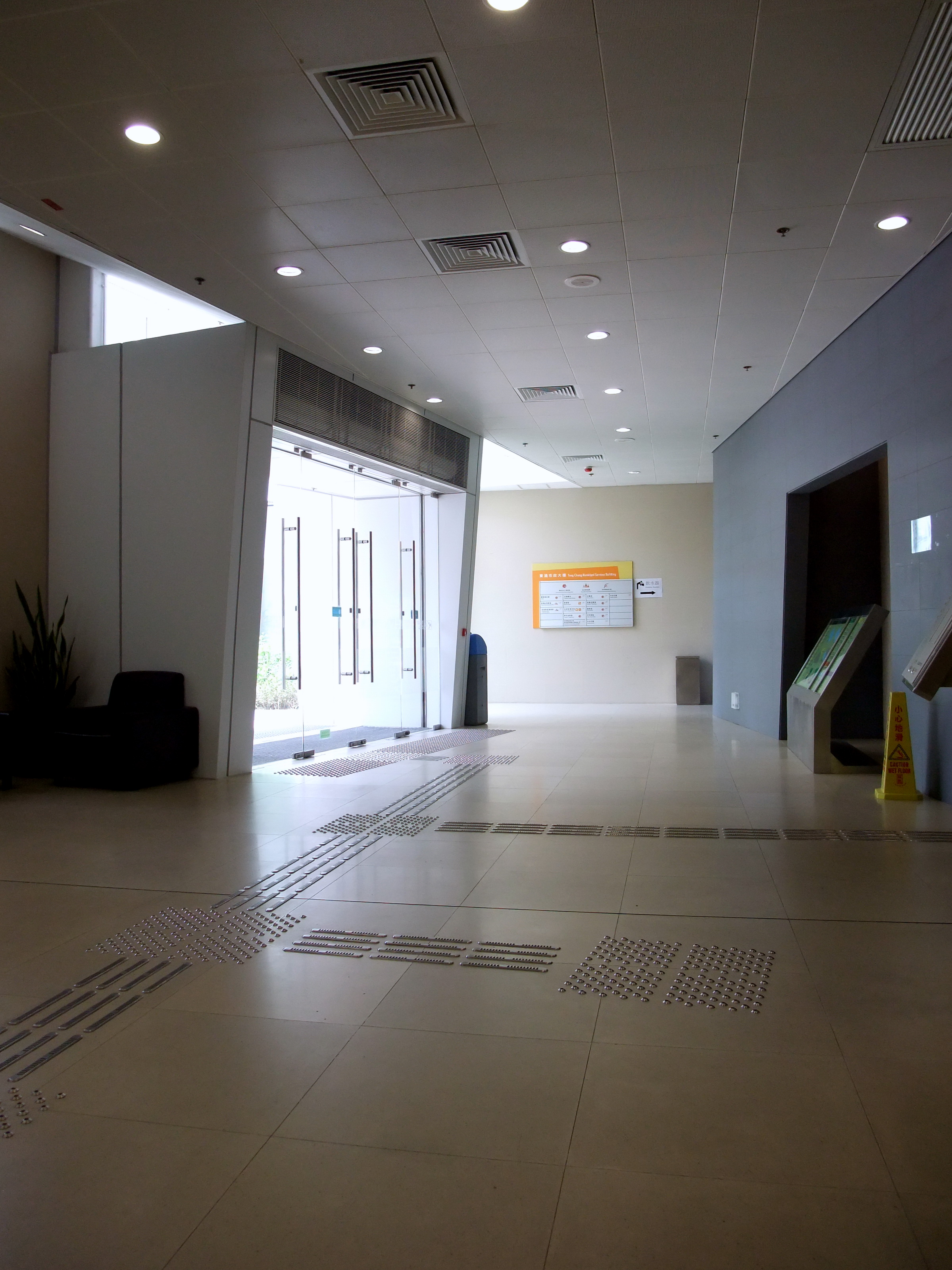 Main entrance of the Tung Chung Municipal Services Building, Tung Chung, New Territories, Hong Kong.